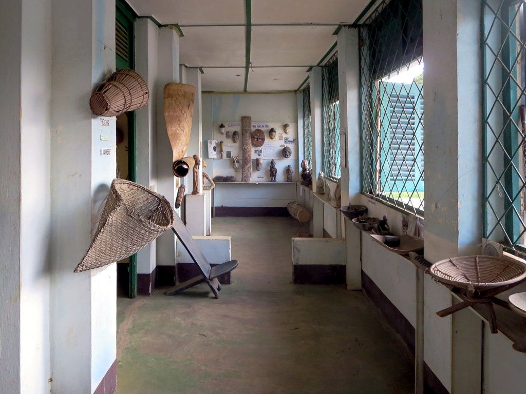 Exhibits in the Ma-Loango Regional Museum, north of Pointe-Noire, Republic of Congo, illustrate traditional life and culture.